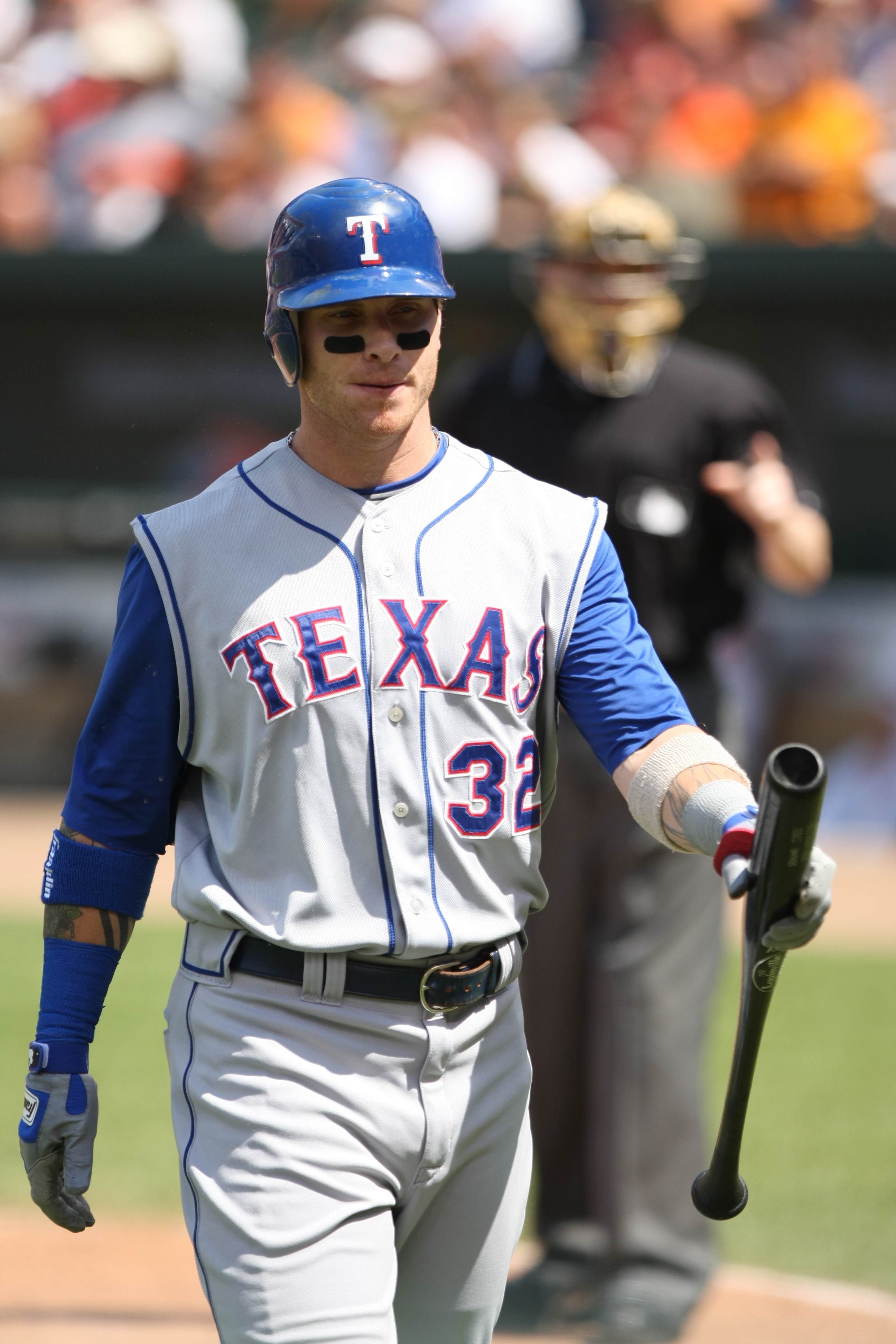 Josh Hamilton